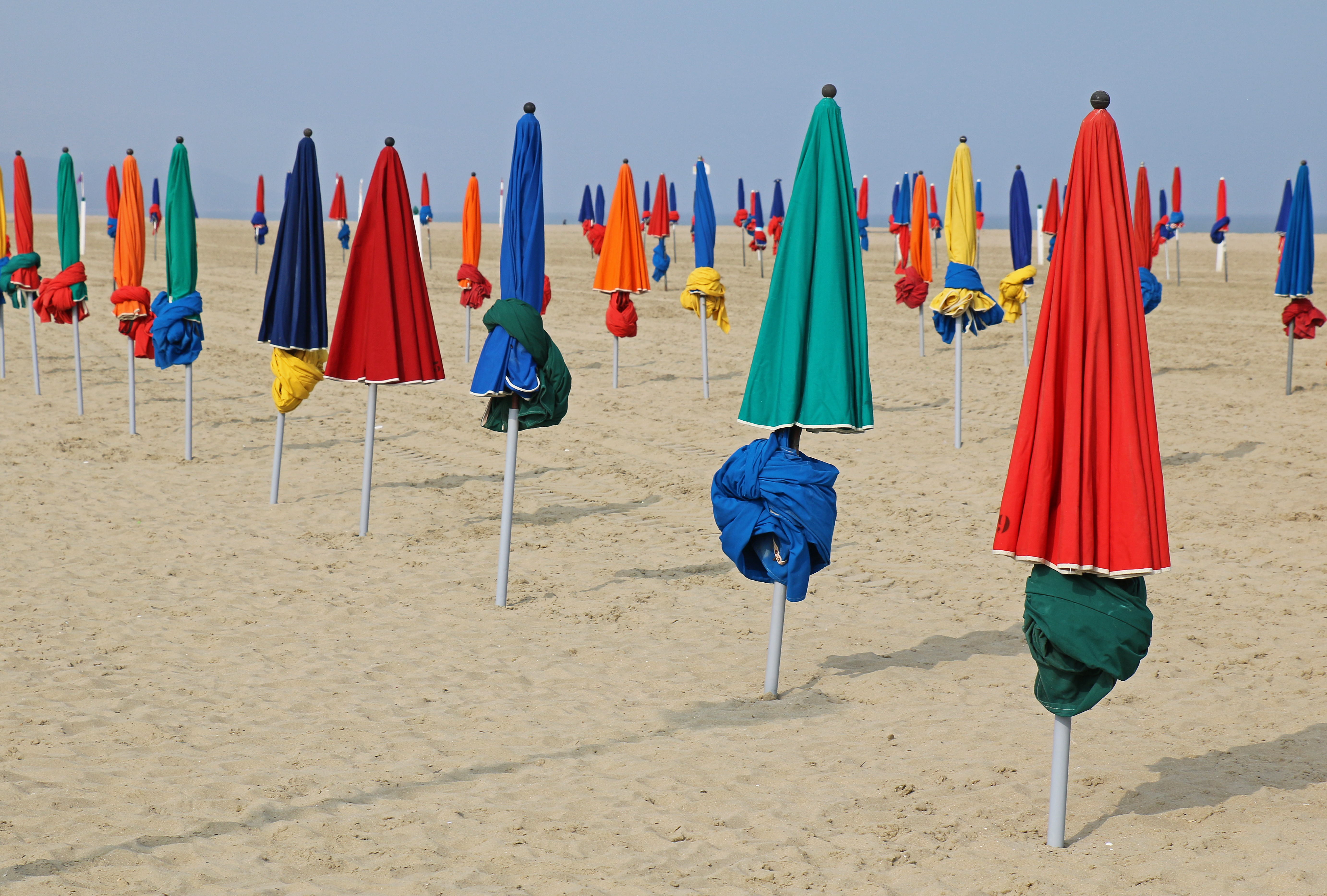 Parasols at the beach of Deauville, Normandy (France)